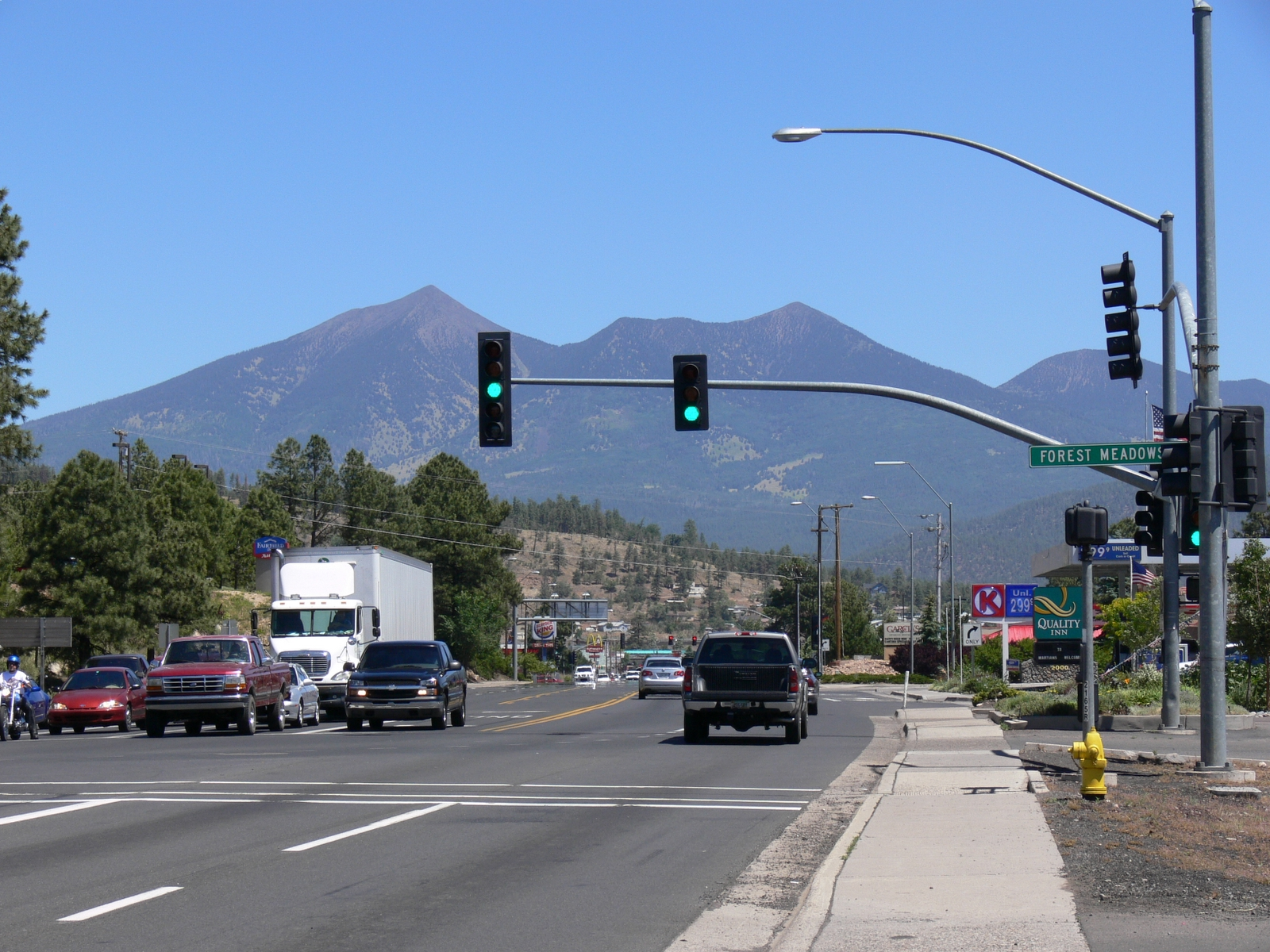 The image was personally taken by me in June 2006. Wars 18:17, 25 June 2006 (UTC)